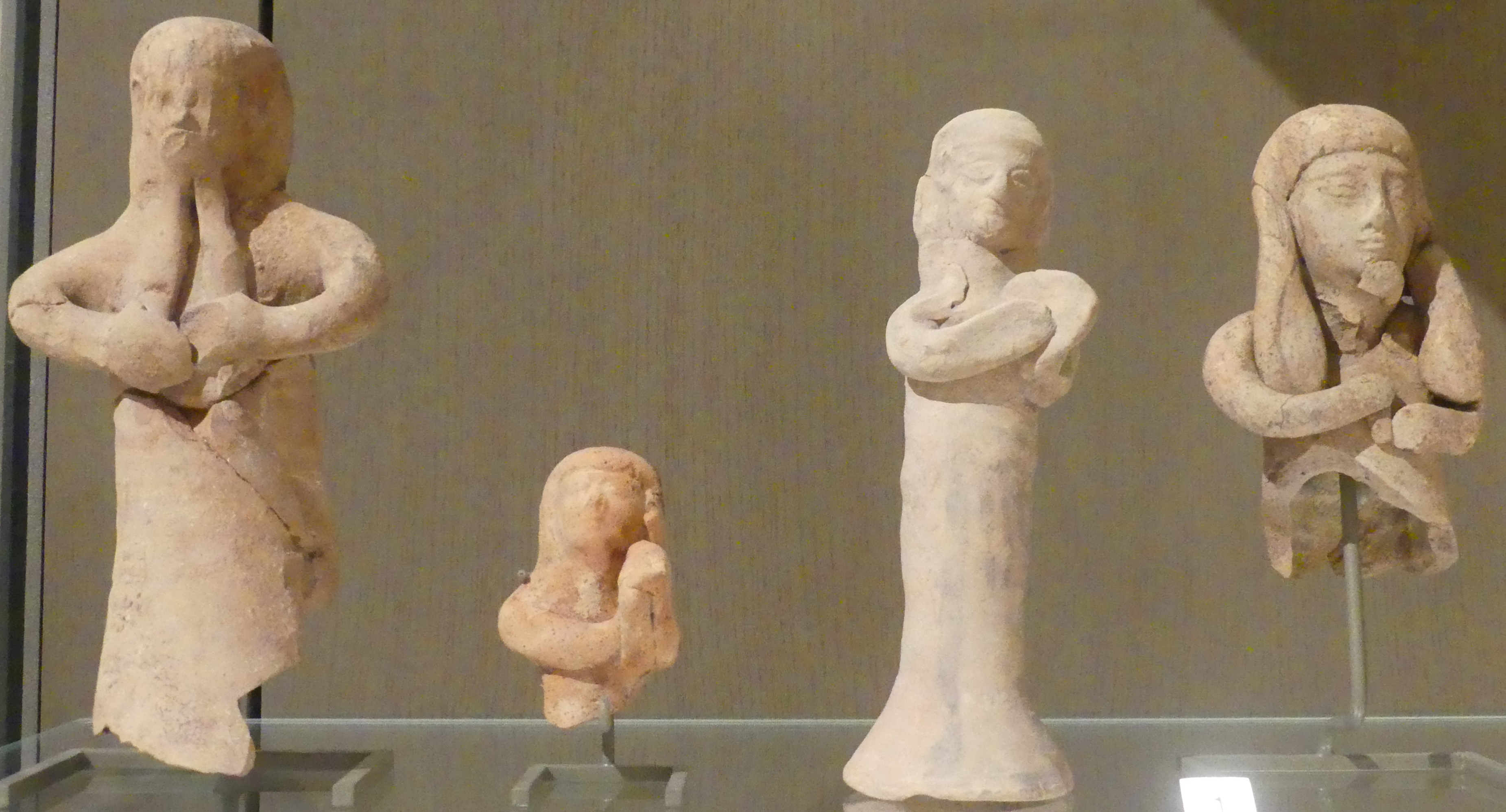 Figurines of Musicians from Tyre, Iron Age II, on display at the National Museum of Beirut, Lebanon